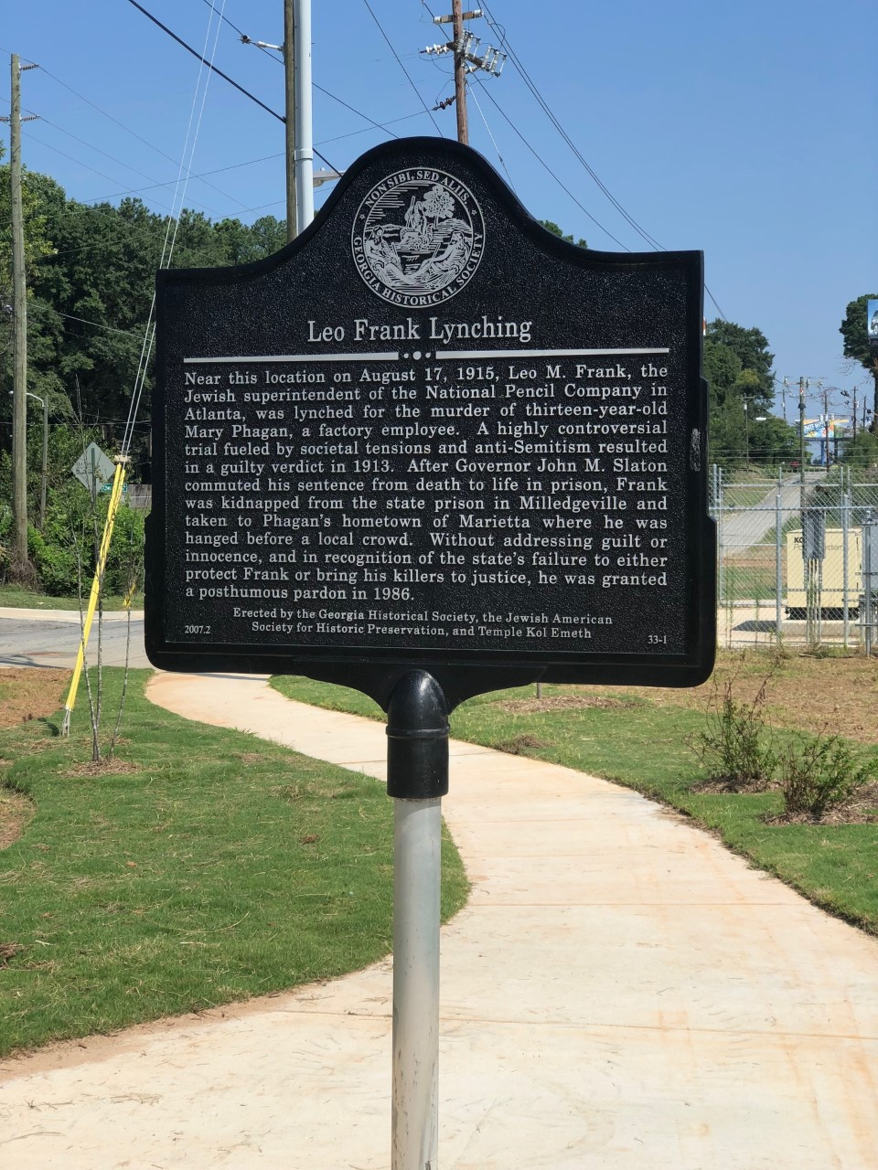 Resited Leo Frank Georgia Historical Society marker.